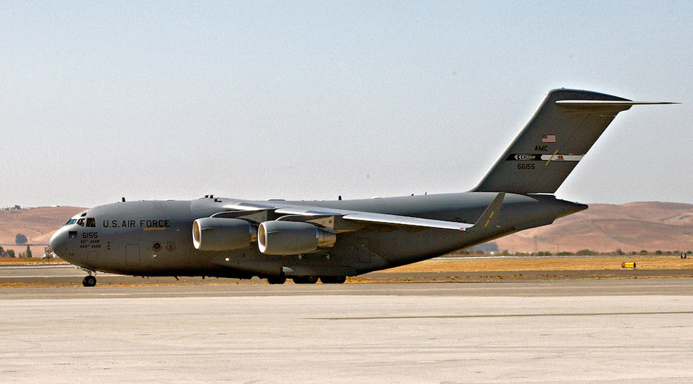 21st Airlift Squadron C-17 Globemaster III